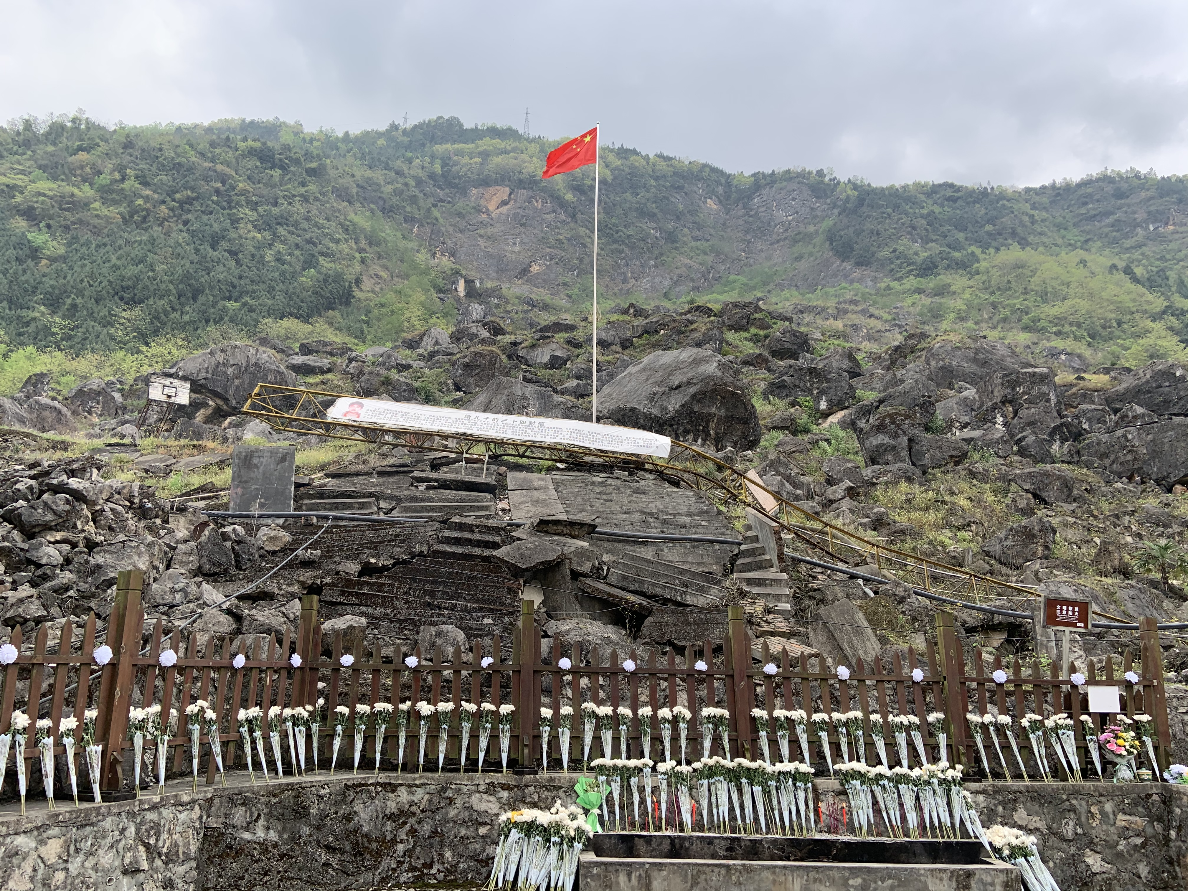 Maoba Middle School (茅坝初中), buried in mudflow. Often misidentified as the relic of Beichuan Middle School (北川中学), partly because the local tourism board name the relic site as "Beichuan Middle School New Campus". Actually, Maoba Middle School was originally the middle school section of Beichuan Middle School.[1]